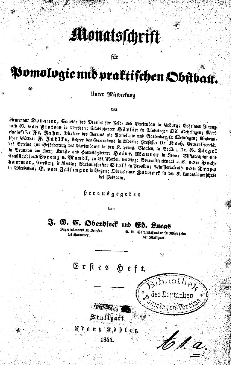 This is a scan of the historical document